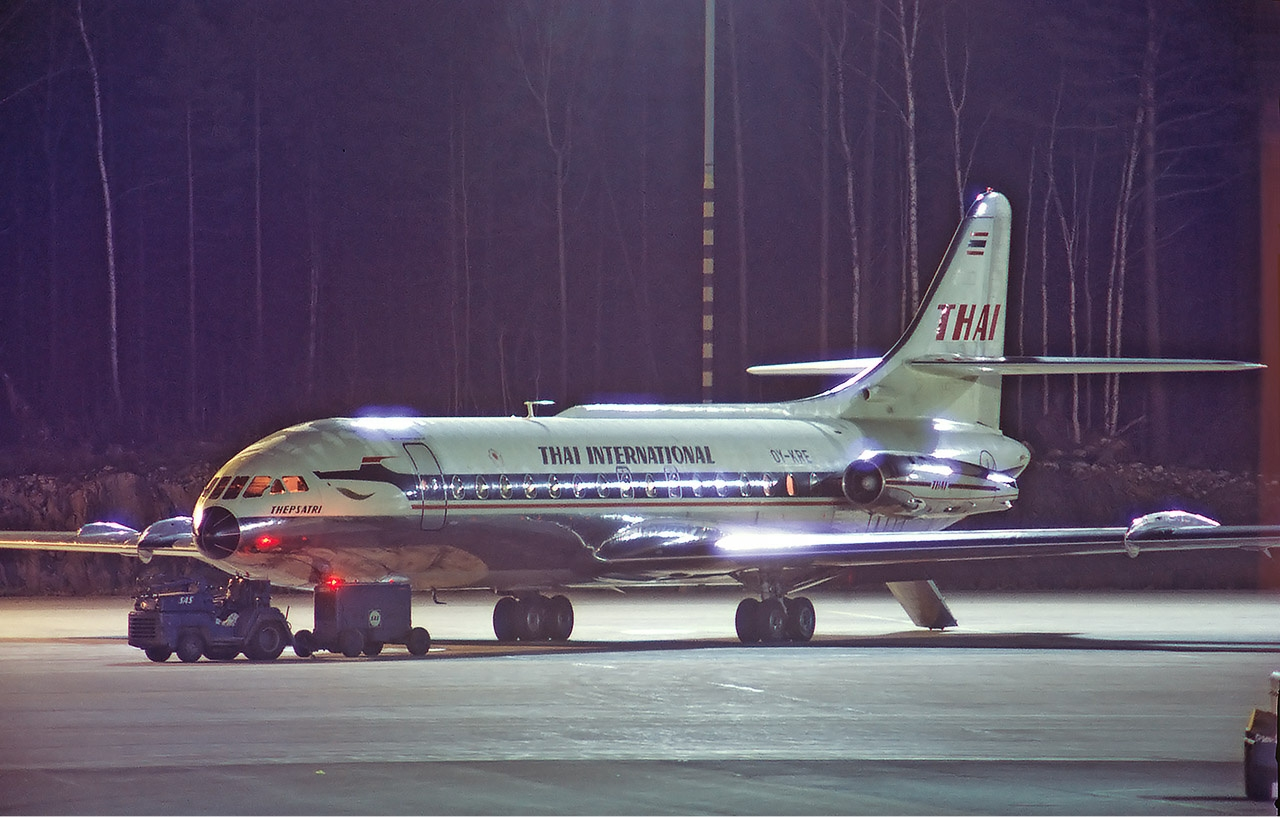 Thai International Sud Aviation Caravelle at Arlanda Airport